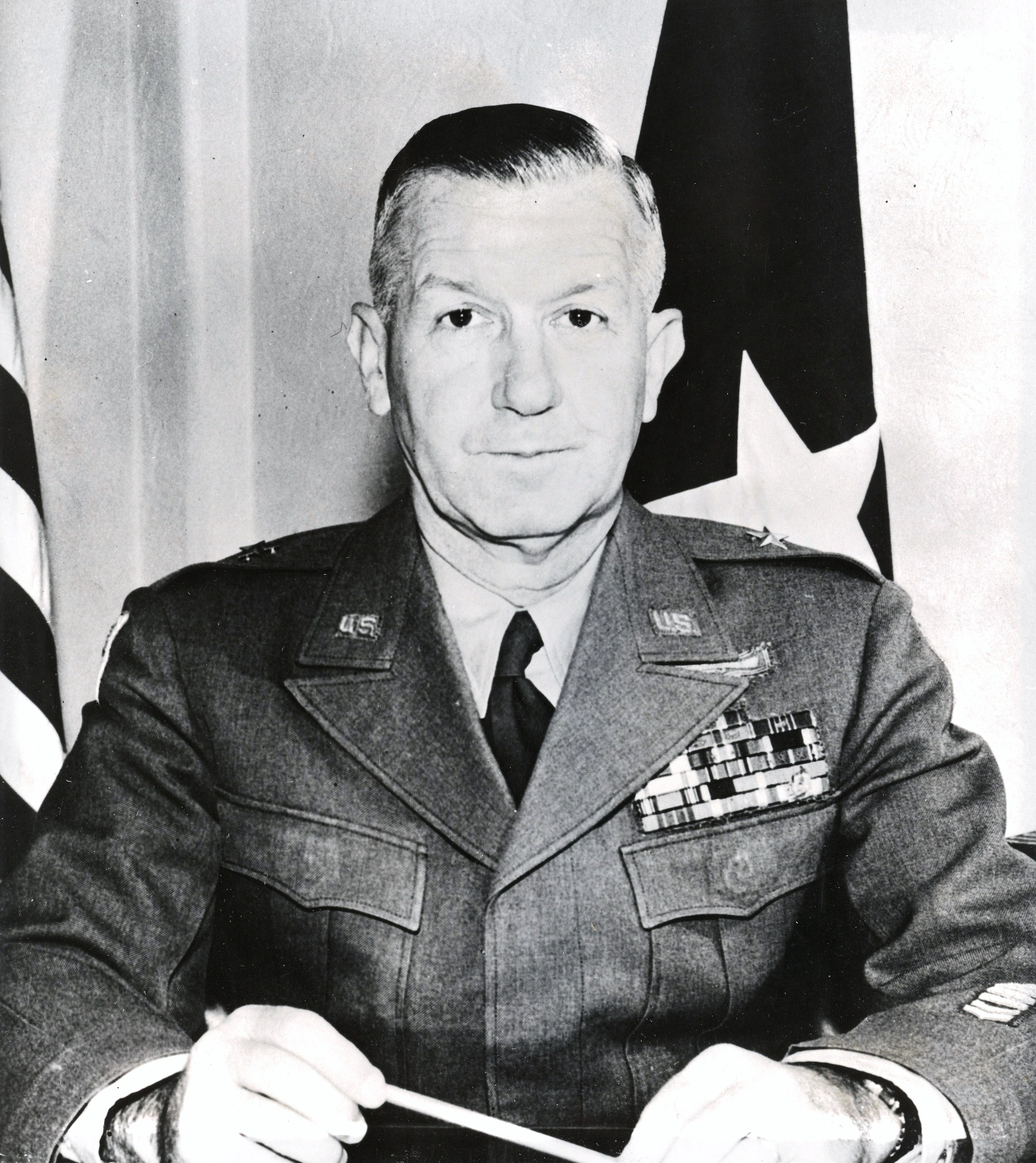 Brigadier Leroy Hugh Watson as commander of the Fort Lewis, Washington army post, circa 1950.